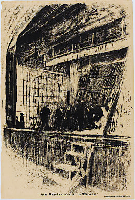 "Une répétition à L'Oeuvre," Theatre Program for L'Oasis, 1903 lithograph in black on woven paper bound in theater program with blue paper cover, page size: 30.2 x 20.6 cm (11 7/8 x 8 1/8 in.) Inscription: lower right printed: Lithographie d'Edouard Vuillard; lower center printed: UNE RÉPÉTITION A "L'OEUVRE"